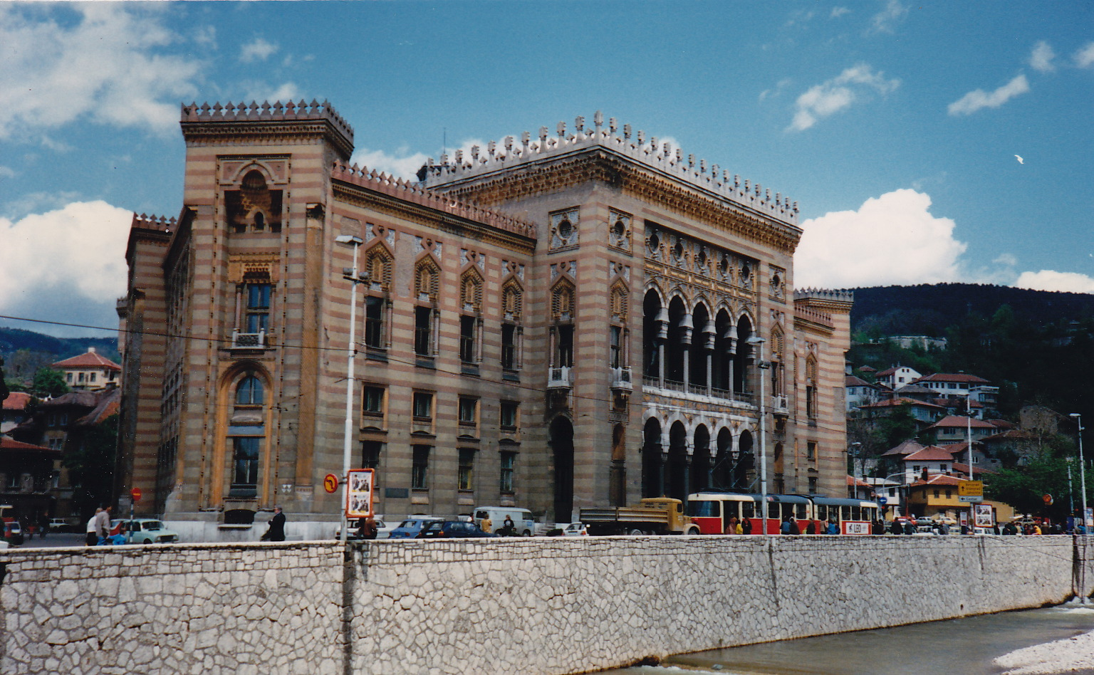 National Library